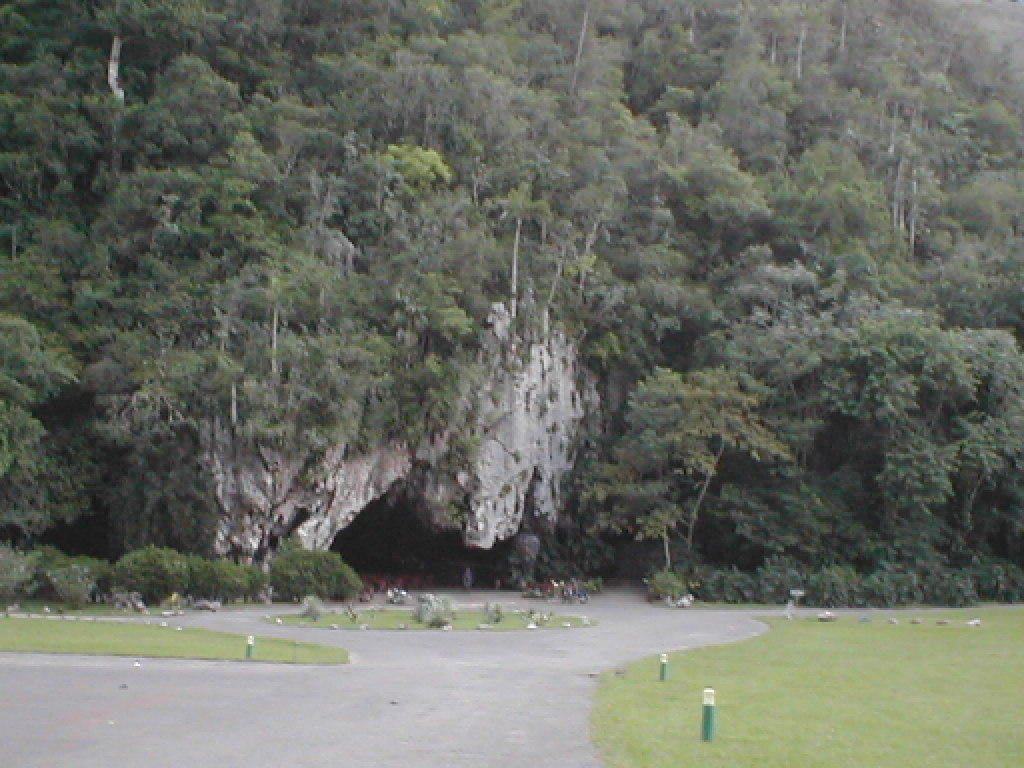 Vinales Indian caves.